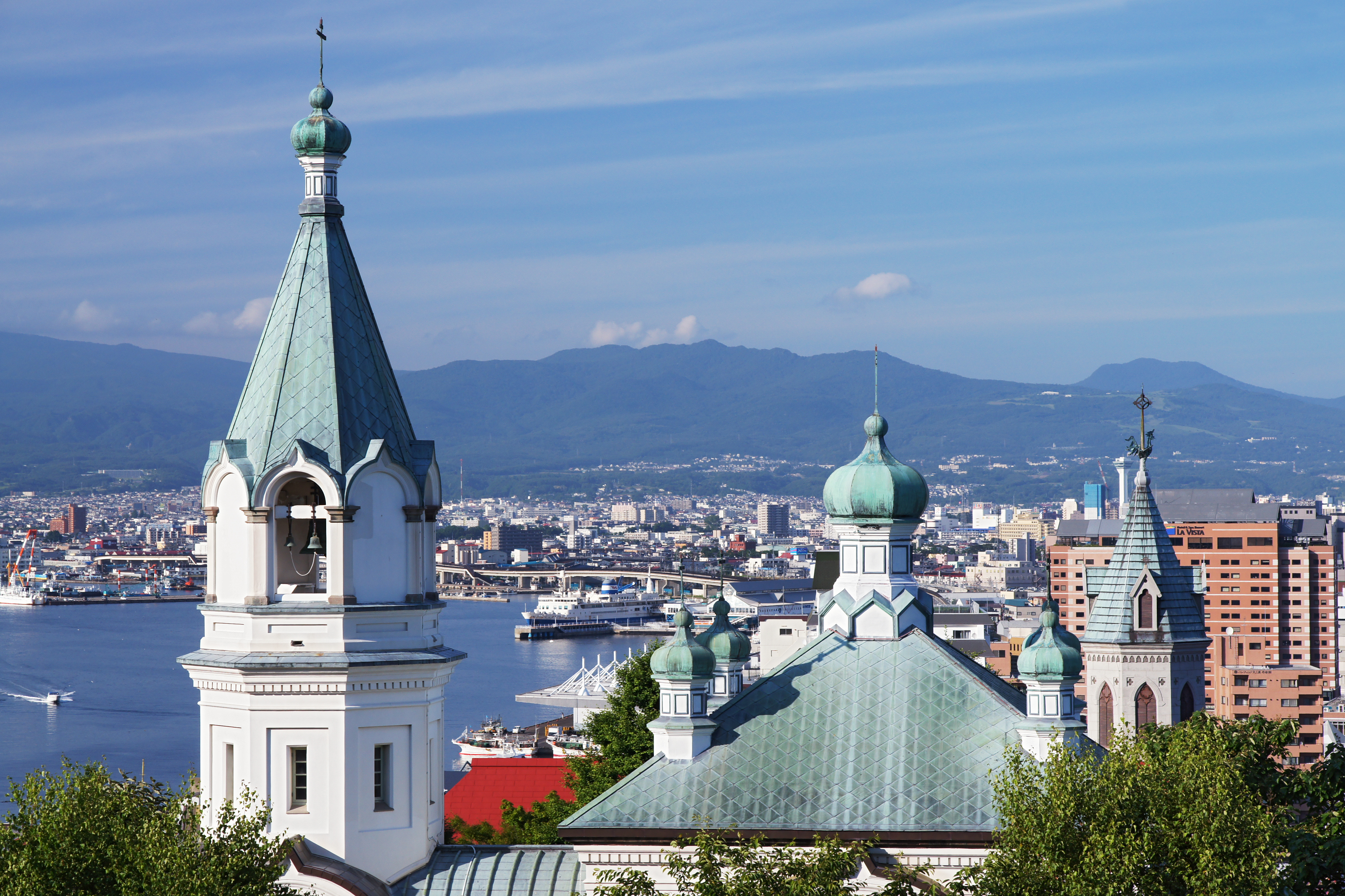 Cityscapes of Hakodate, Hokkaido prefecture, Japan